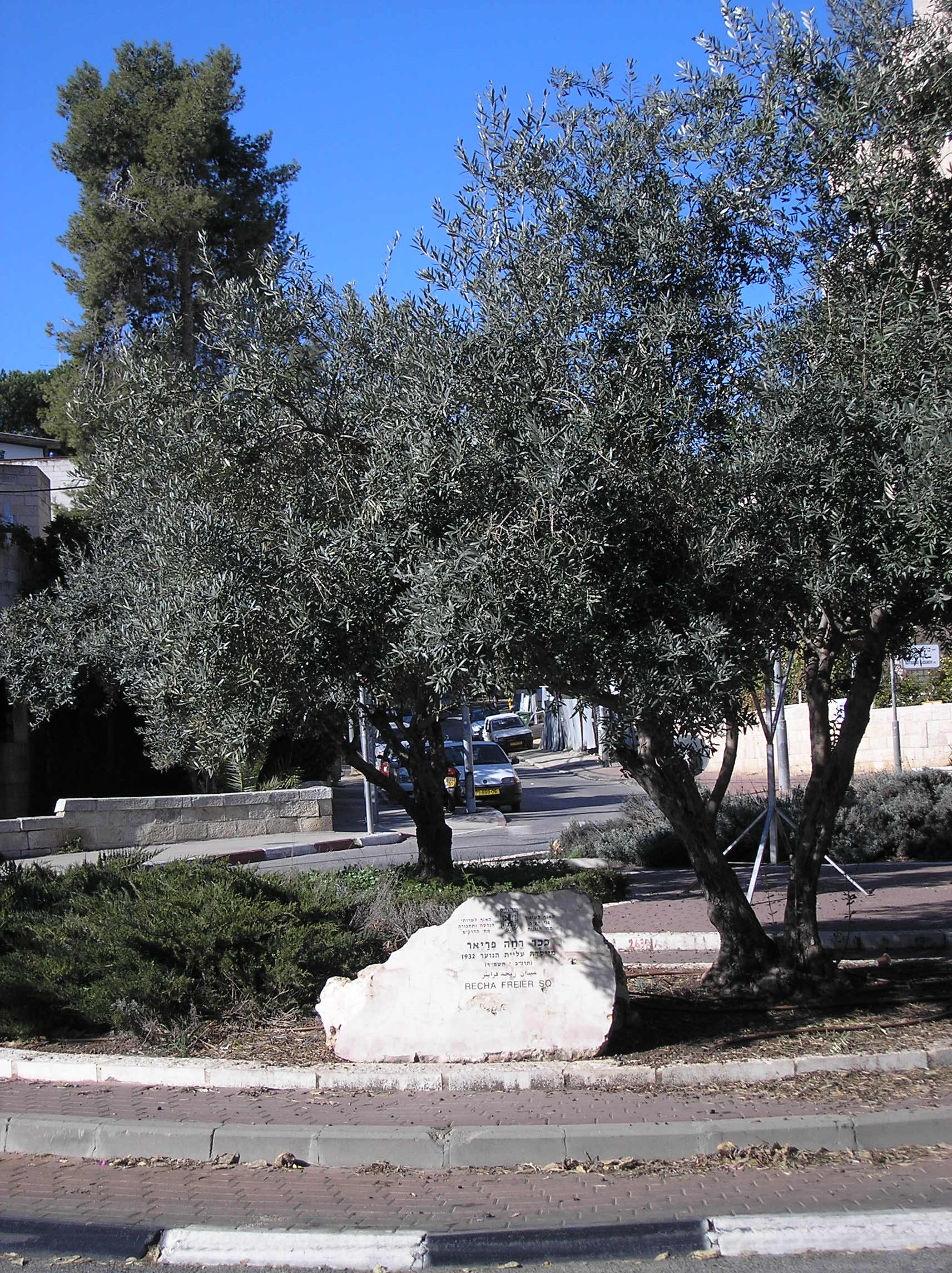 The Freyer Sqaure